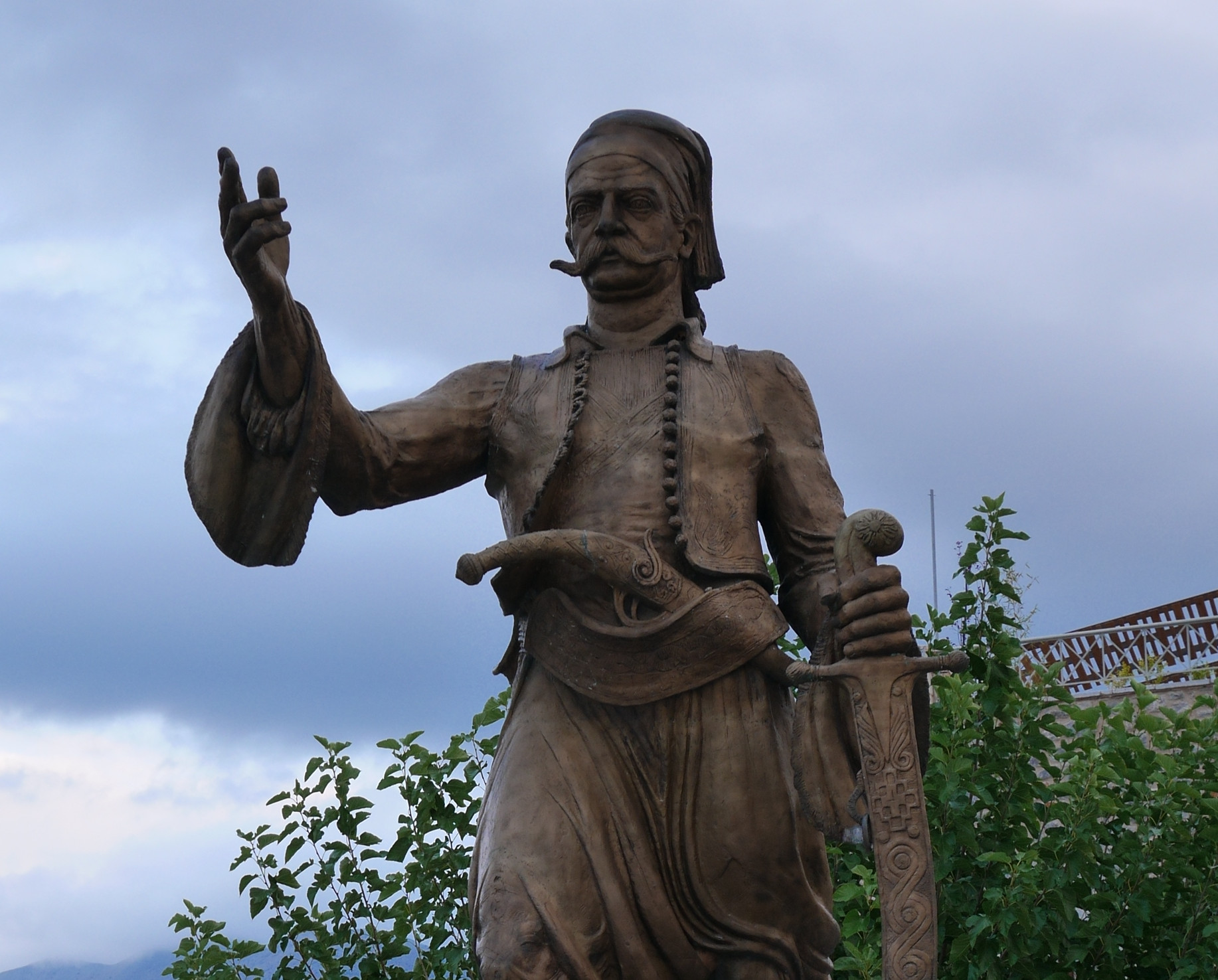 Monument to Petros Mavromichalis in Areopoli, Greece